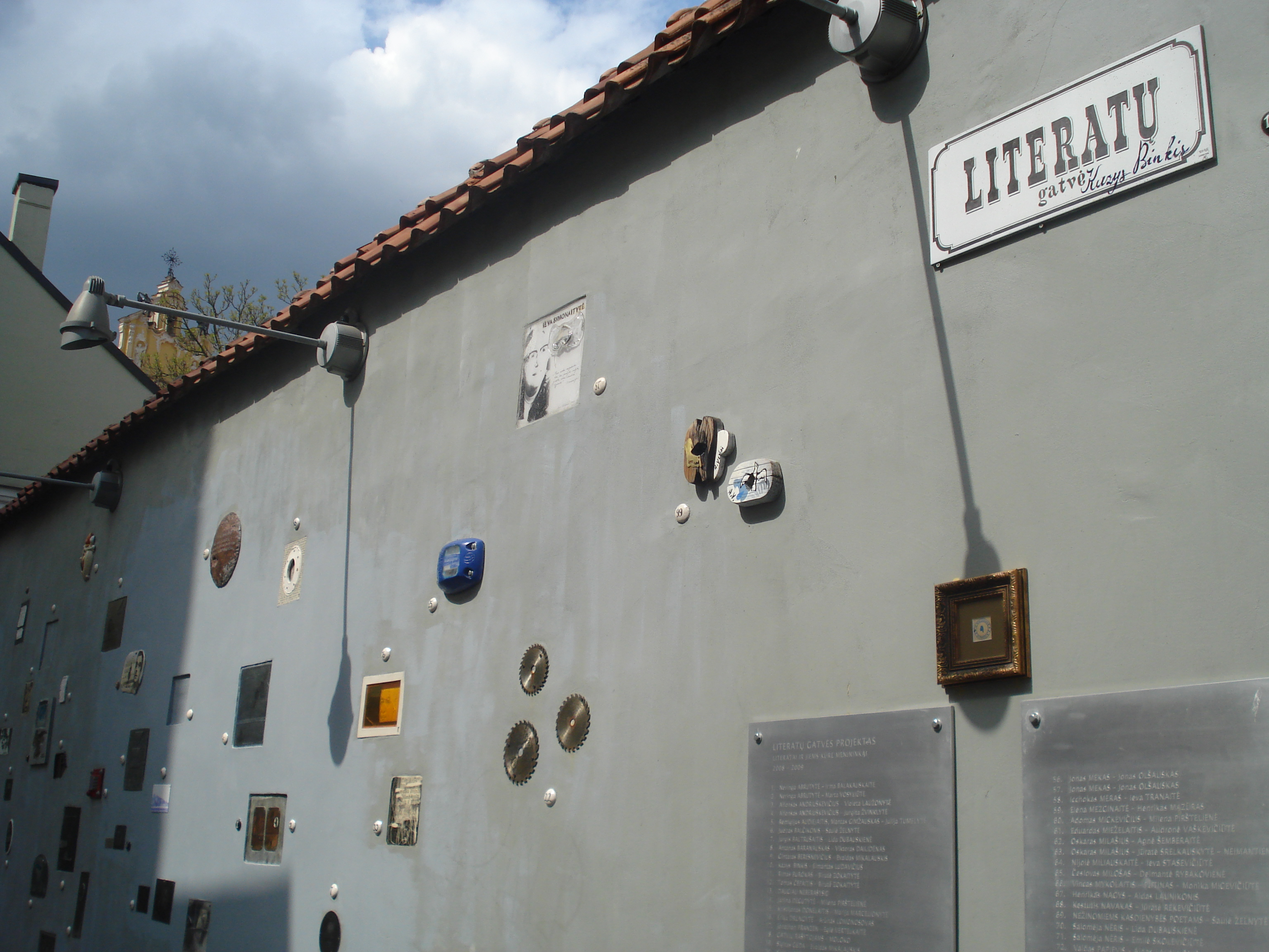 The wall with mounted dedications to the literature workers in the Literatų street. Vilnius